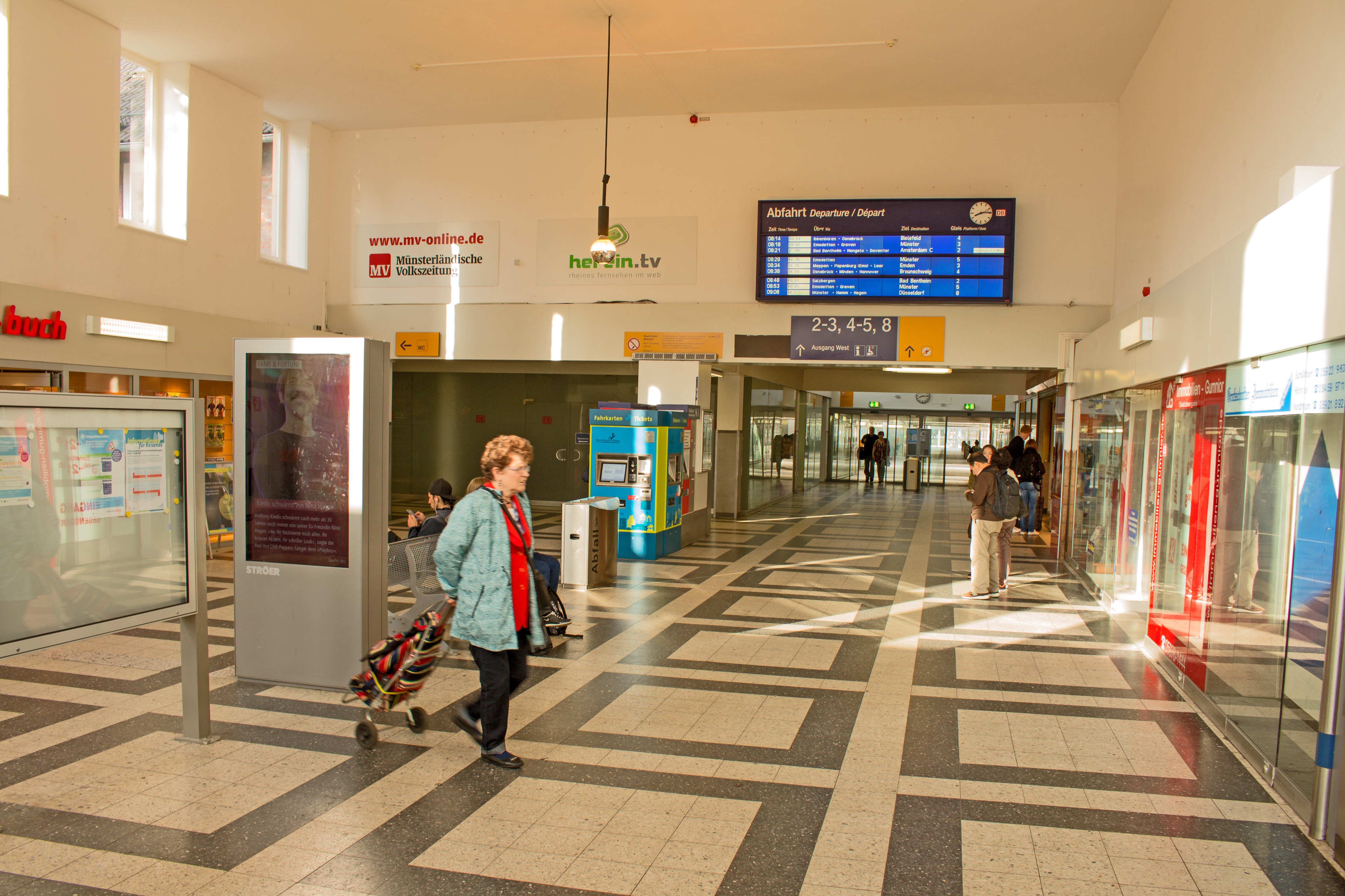 station concourse of Rheine train station - Rheine, North Rhine-Westphalia, Germany